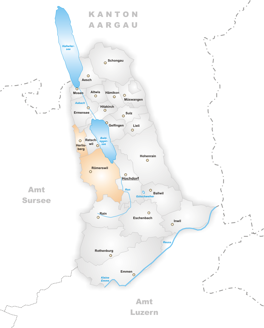 Municipalities of District Hochdorf until 2004